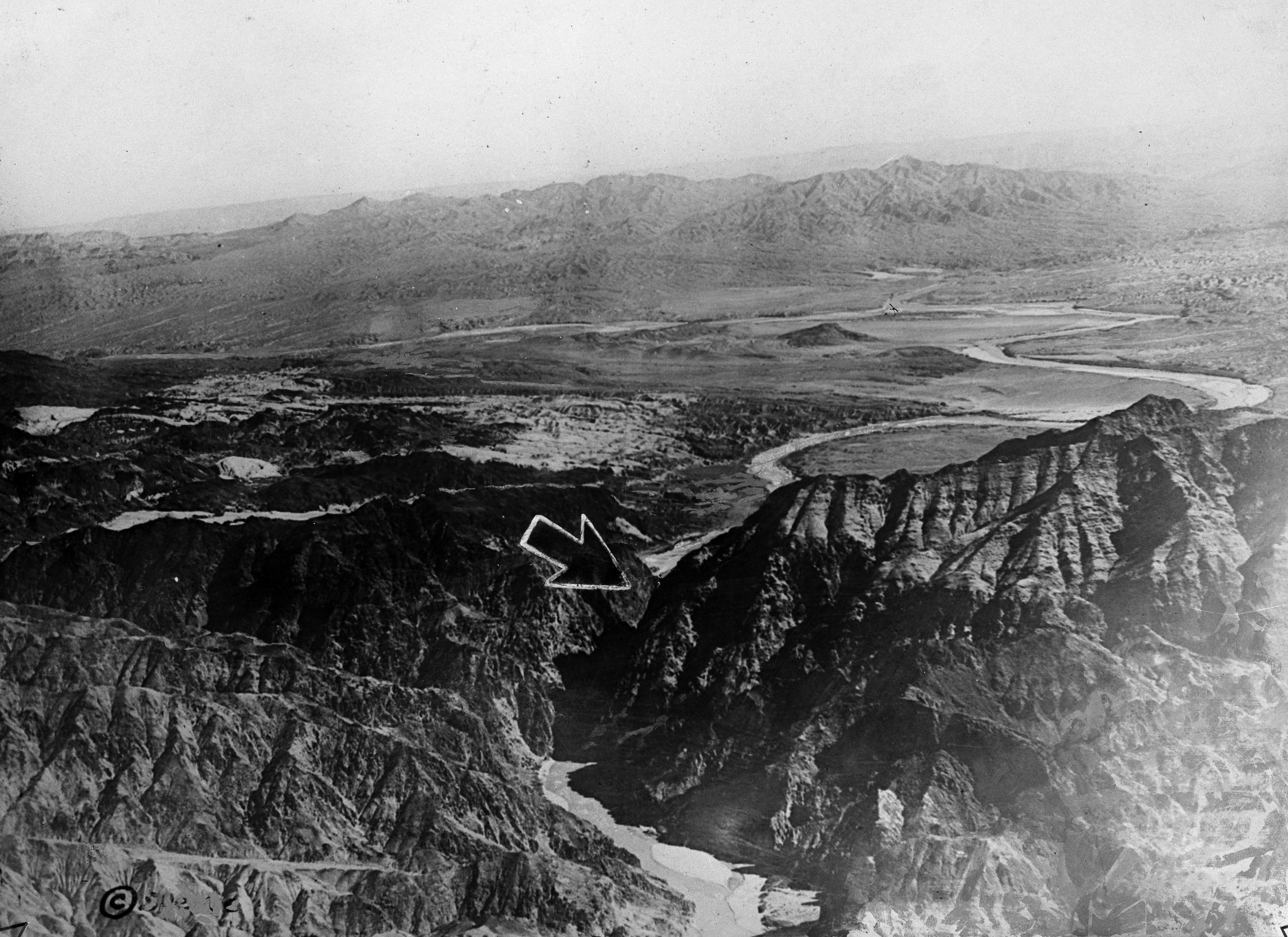 Photo of area where Boulder [Hoover] Dam site proposed, circa 1921